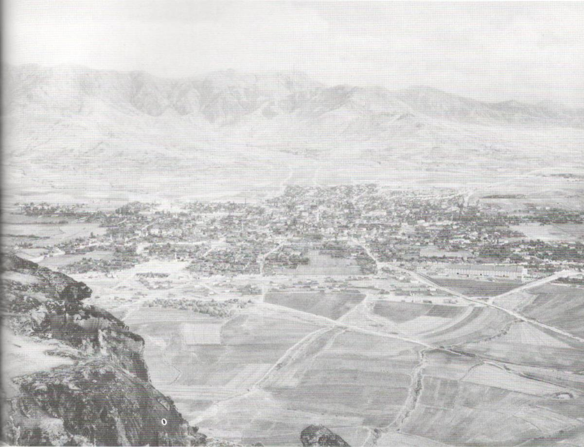 Historic photo of a panoramic view of Prilep, Macedonia